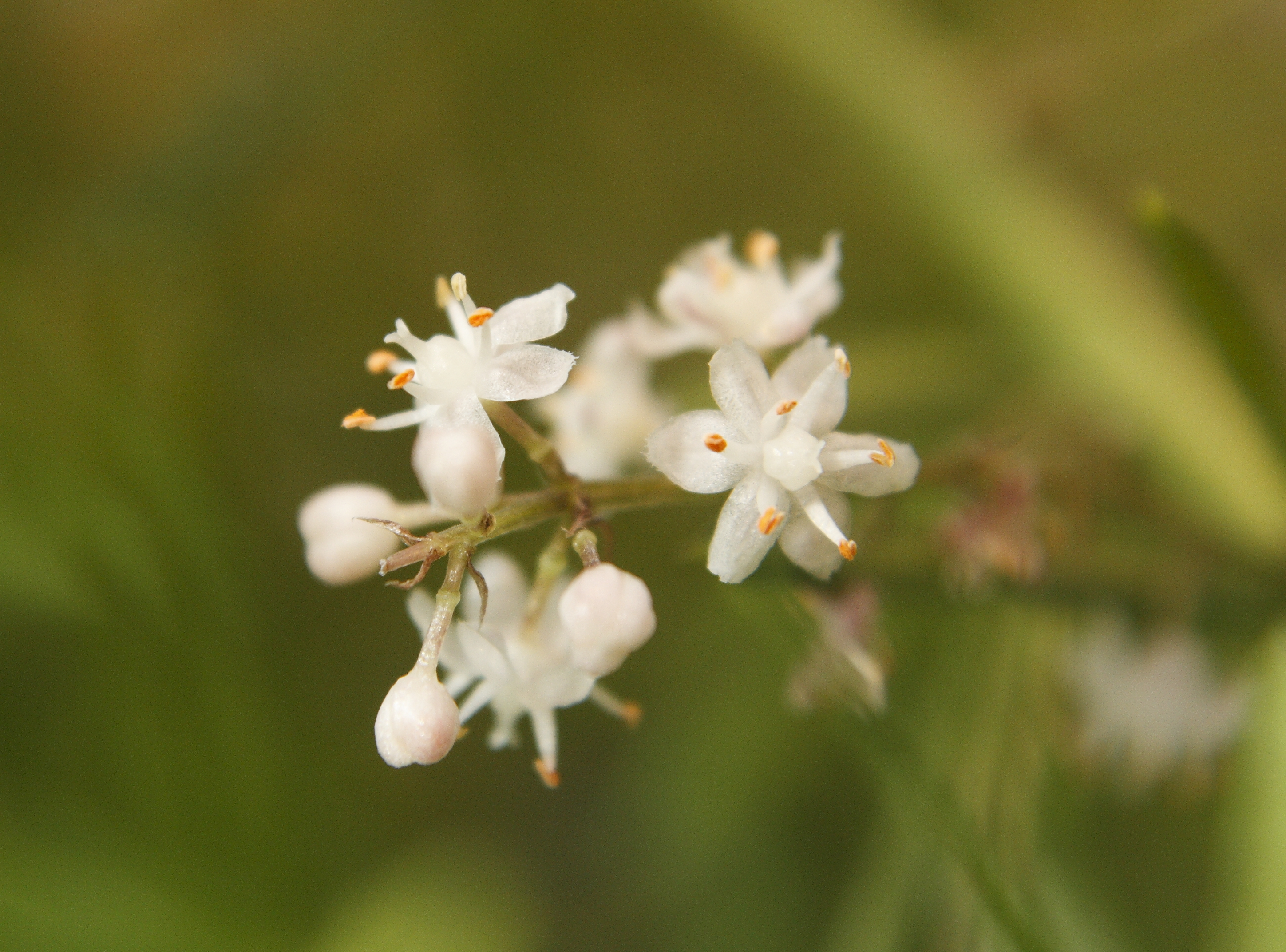 Flowers of a greenhouse-cultivated Asparagus racemosus.